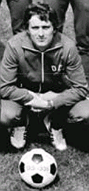 Title: Olympiade, DDR-Fußball-Nationalmannschaft Factual corrections and alternative descriptions are encouraged separately from the original description. Additionally errors can be reported at this page to inform the Bundesarchiv. Original historic description: Matthias Müller 1980